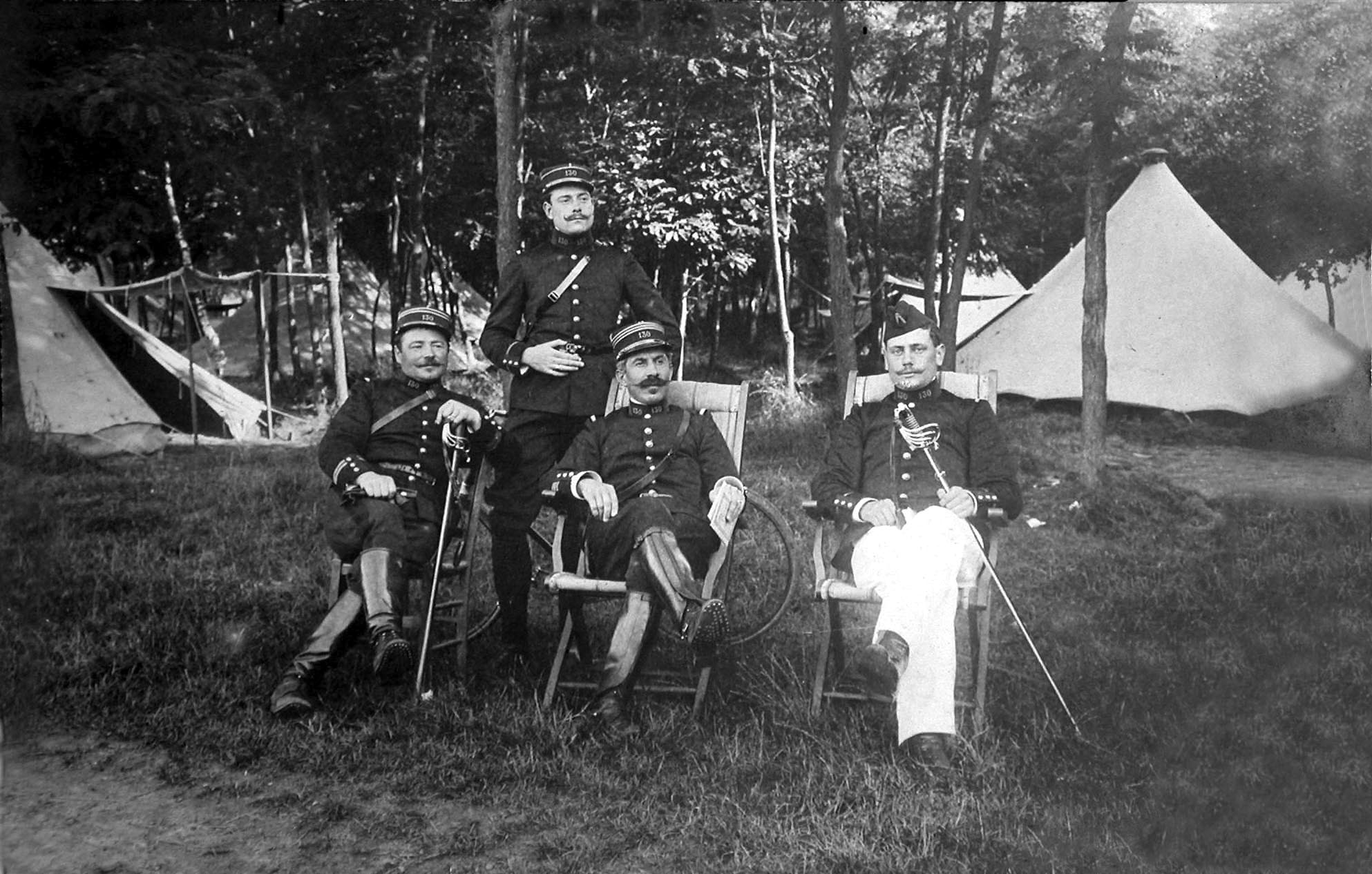 Officers of the 130th Infantry Regiment in 1910